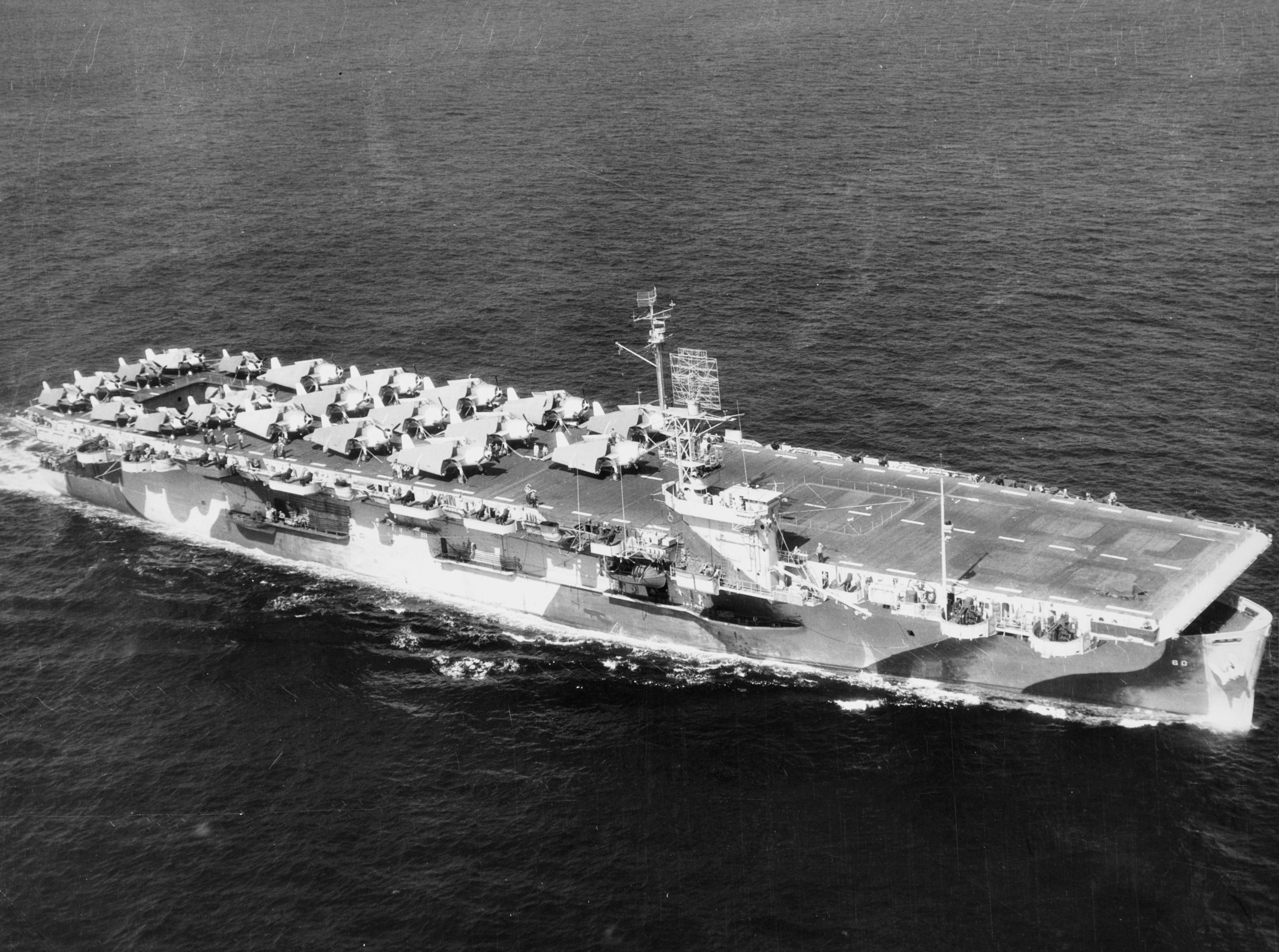 The U.S. Navy escort carrier USS Guadalcanal (CVE-60) photographed from a blimp of Airship Patrol Squadron 24 (ZP-24) while steaming off Hampton Roads, Virginia (USA), on 28 September 1944. Her reported position was 36-56N, 74-50W, course 095. Planes parked on her flight deck include twelve TBM/TBF Avenger torpedo bombers and nine FM/F4F Wildcat fighters. Guadalcanal is painted in a modified version of Camouflage Measure 32, Design 4A.